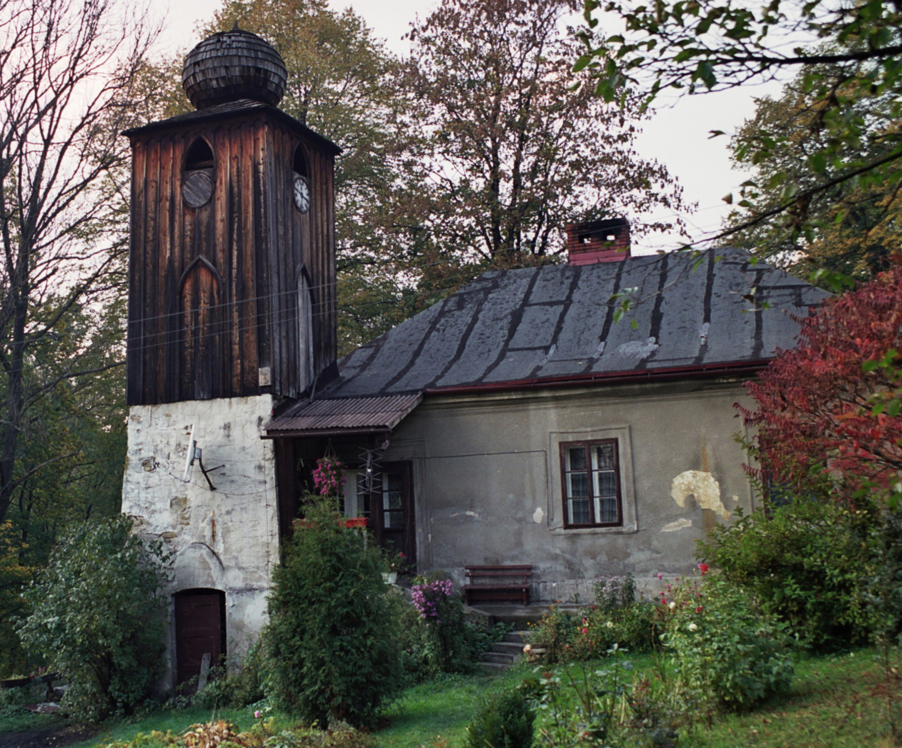 Author: Przykuta Date: October 2005